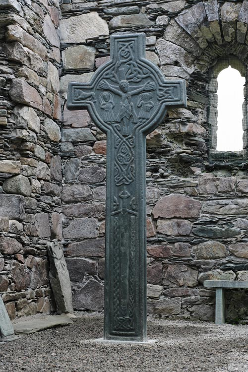 Author: Antony McCallum Kilmory Knap Chapel MacMillan's Cross which originally stood in the Chapel Cemetery